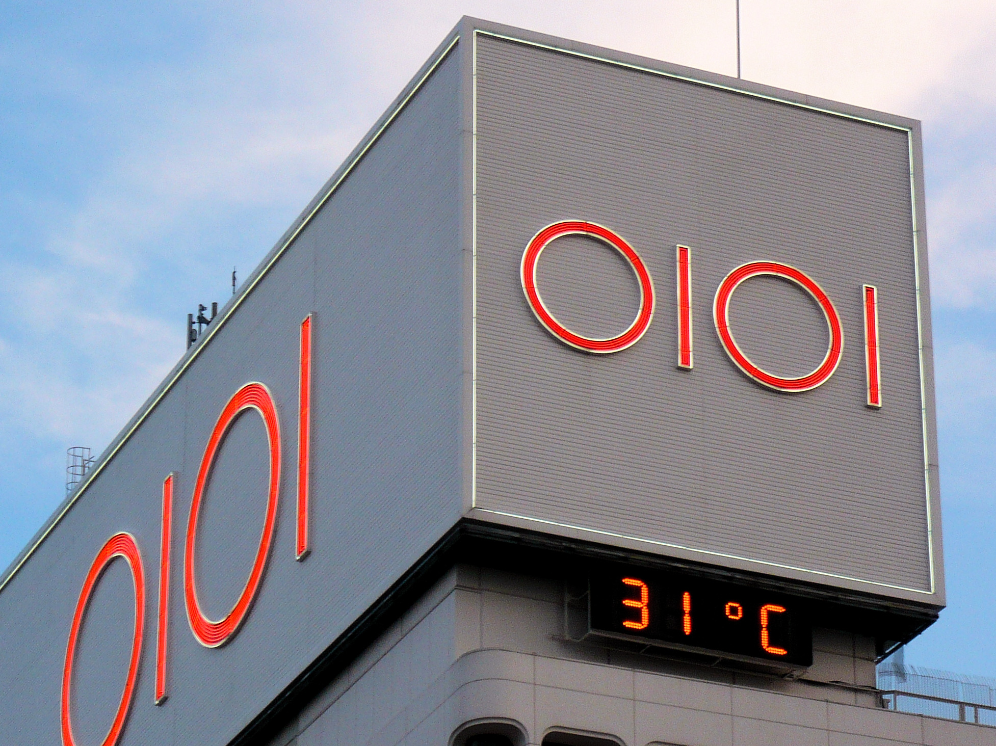 Neon sign of Marui at Ueno, Tokyo. See where this picture was taken.